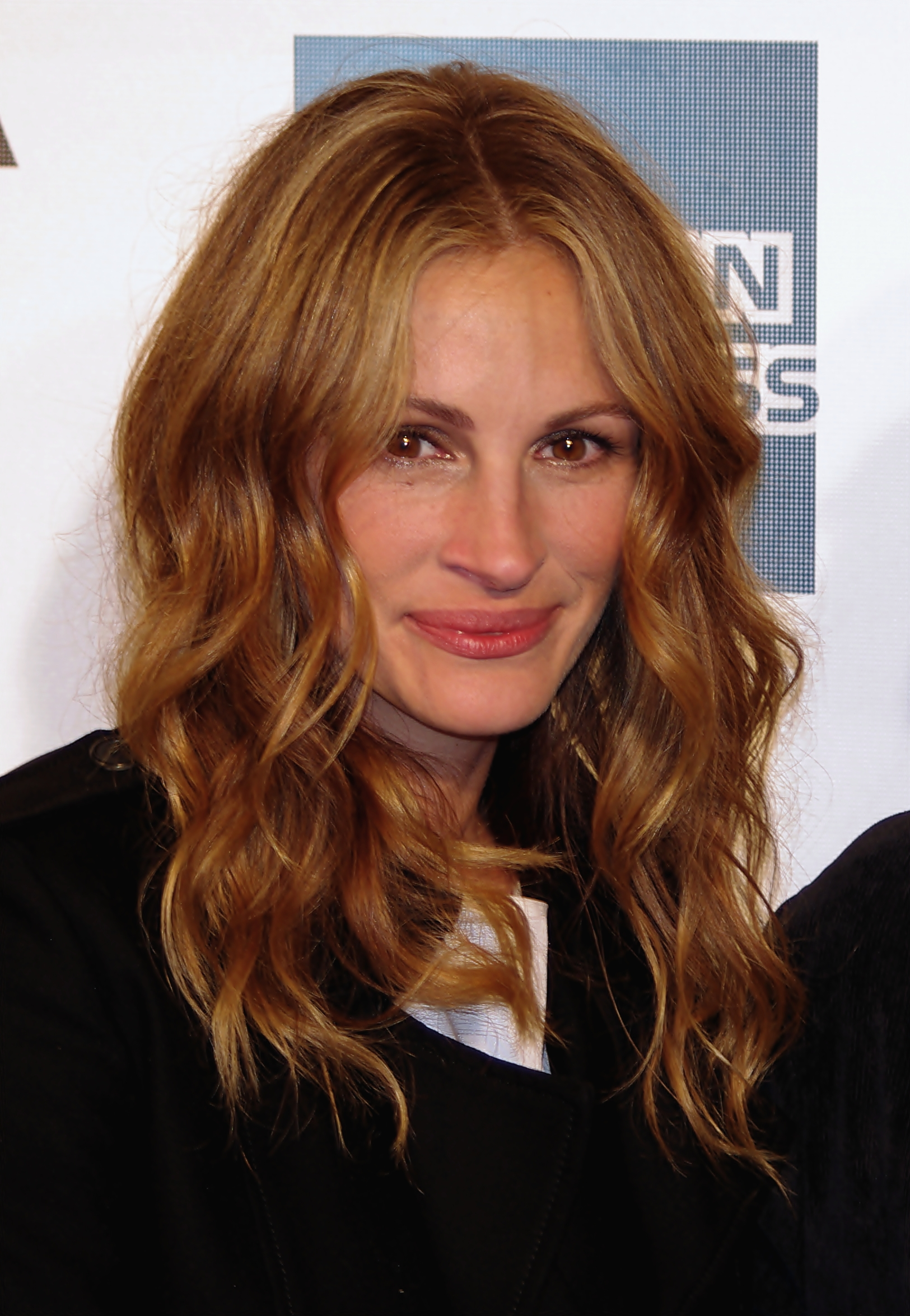 Julia Roberts attending the premiere of Jesus Henry Christ at the 2011 Tribeca Film Festival.